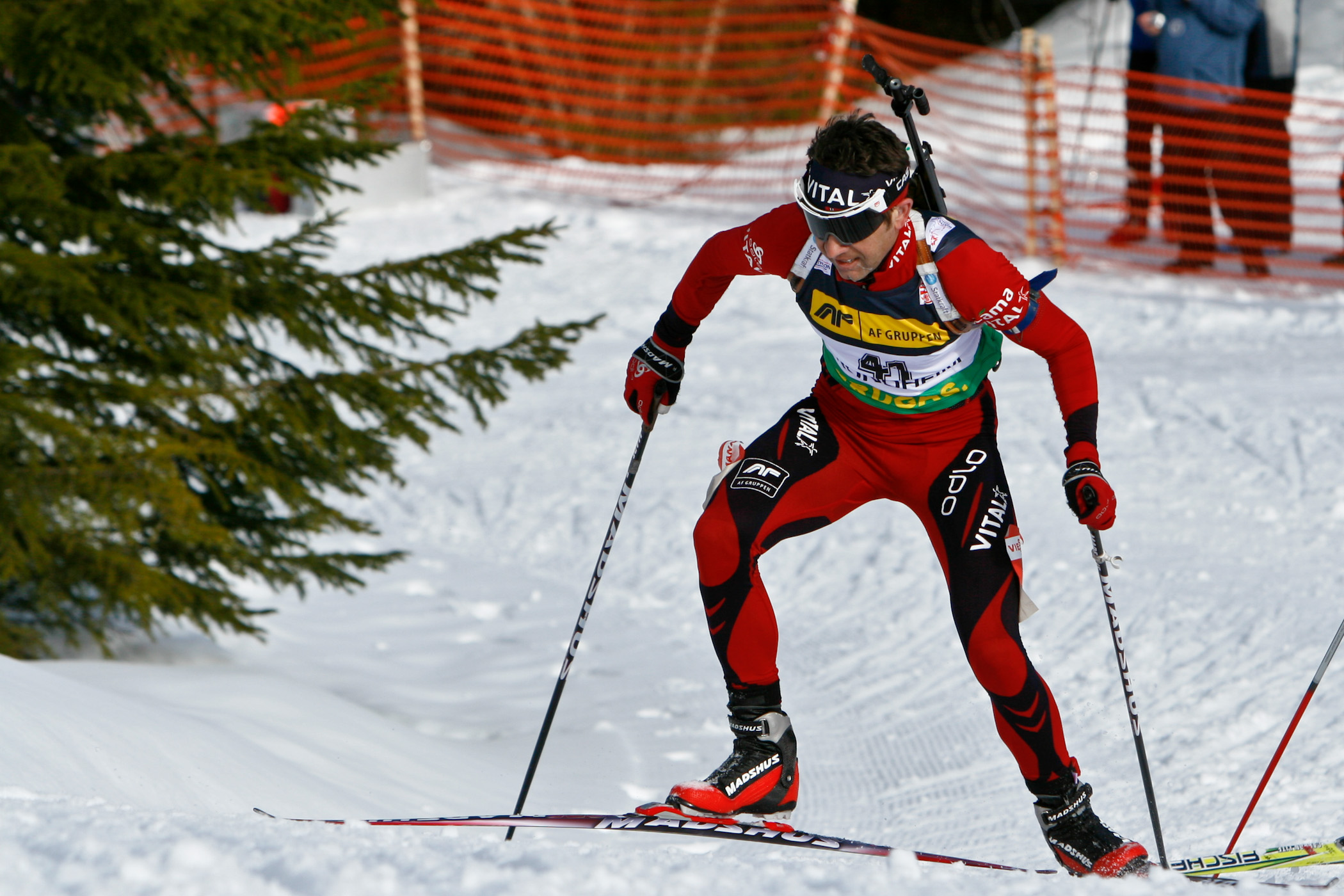 Ole Einar Bjørndalen at the IBU World Cup Biathlon Trondheim 19 March 2009. The license on this photo was changed on 11 February 2010 from All rights reserved to Creative Commons (CC-BY-SA). At the same time, a bigger version (2100x1400px) of the photo replaced the old one. If you use this picture, remember to give credit according to the license (